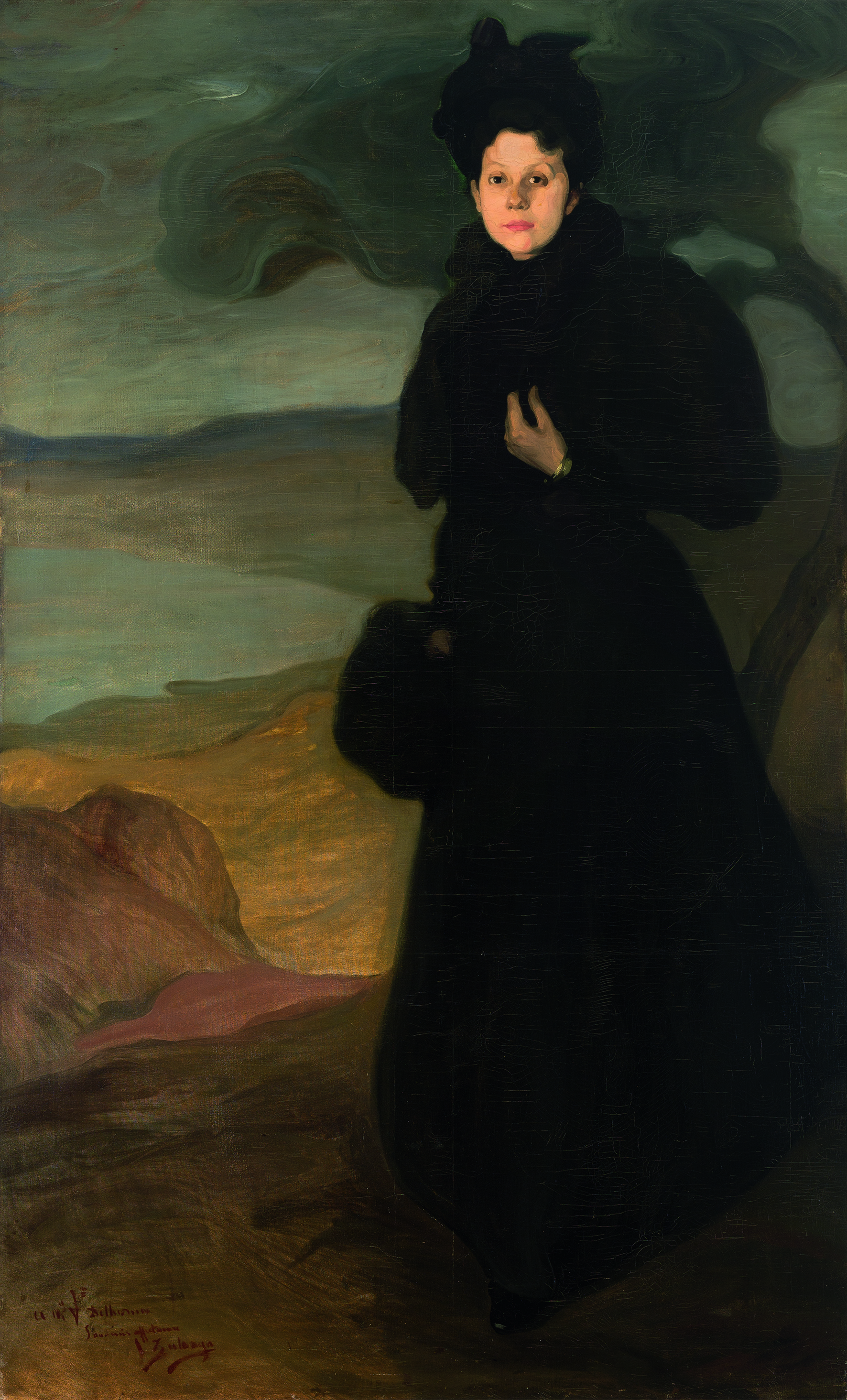 Retrato de Mlle. Valentine Dethomas, c.1895. Oil on canvas. 185 x 115 cm. San Telmo Museoa, Spain. Valentine was the half-sister of the artist Maxime Dethomas, and would go on to marry Zuloaga in 1899.